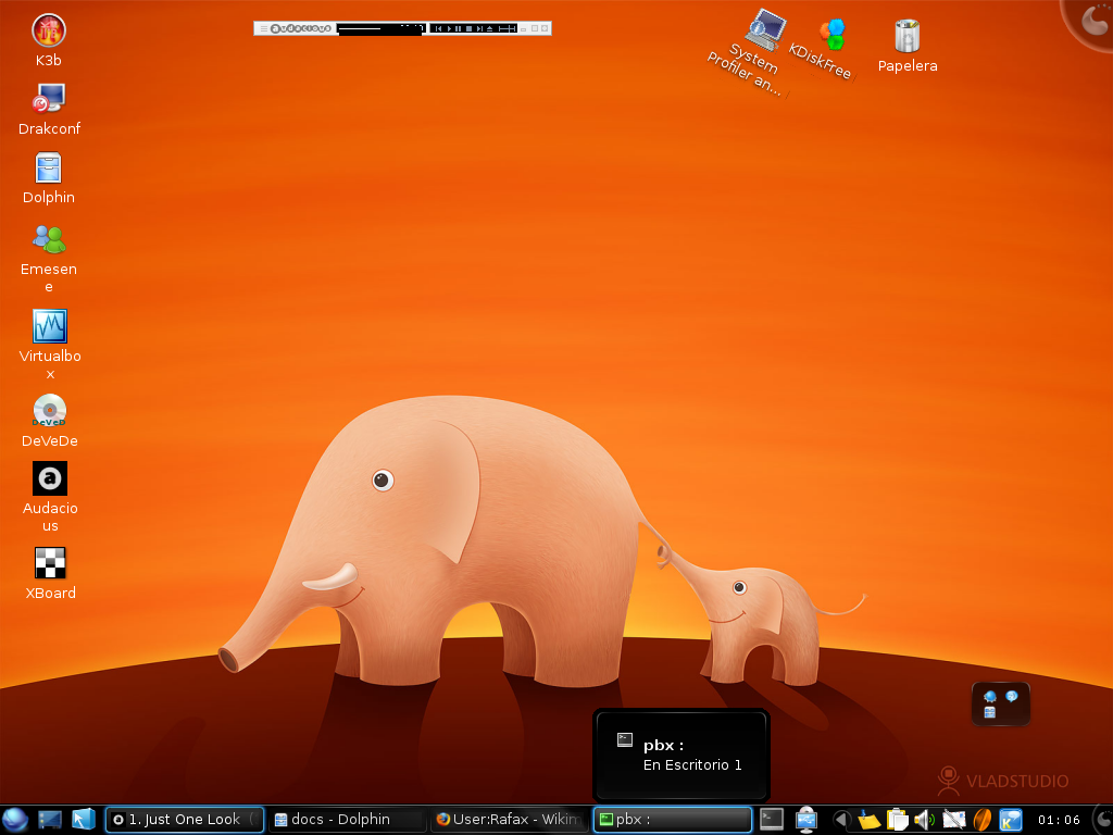 A snapshot of the KDE 4.2 environment running on a Mandriva 2009.1 Gnu/Linux Distribution.